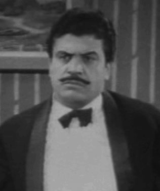 Nosratollah Vahdat in Aroosfarangi